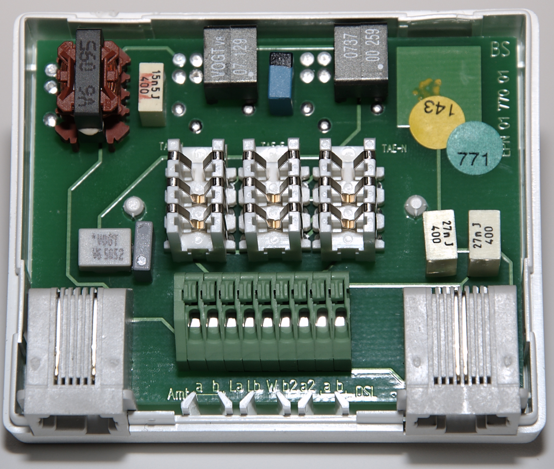 Inner view of german DSL equipment